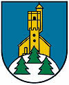 Coat of arms of Atzesberg, Upper Austria